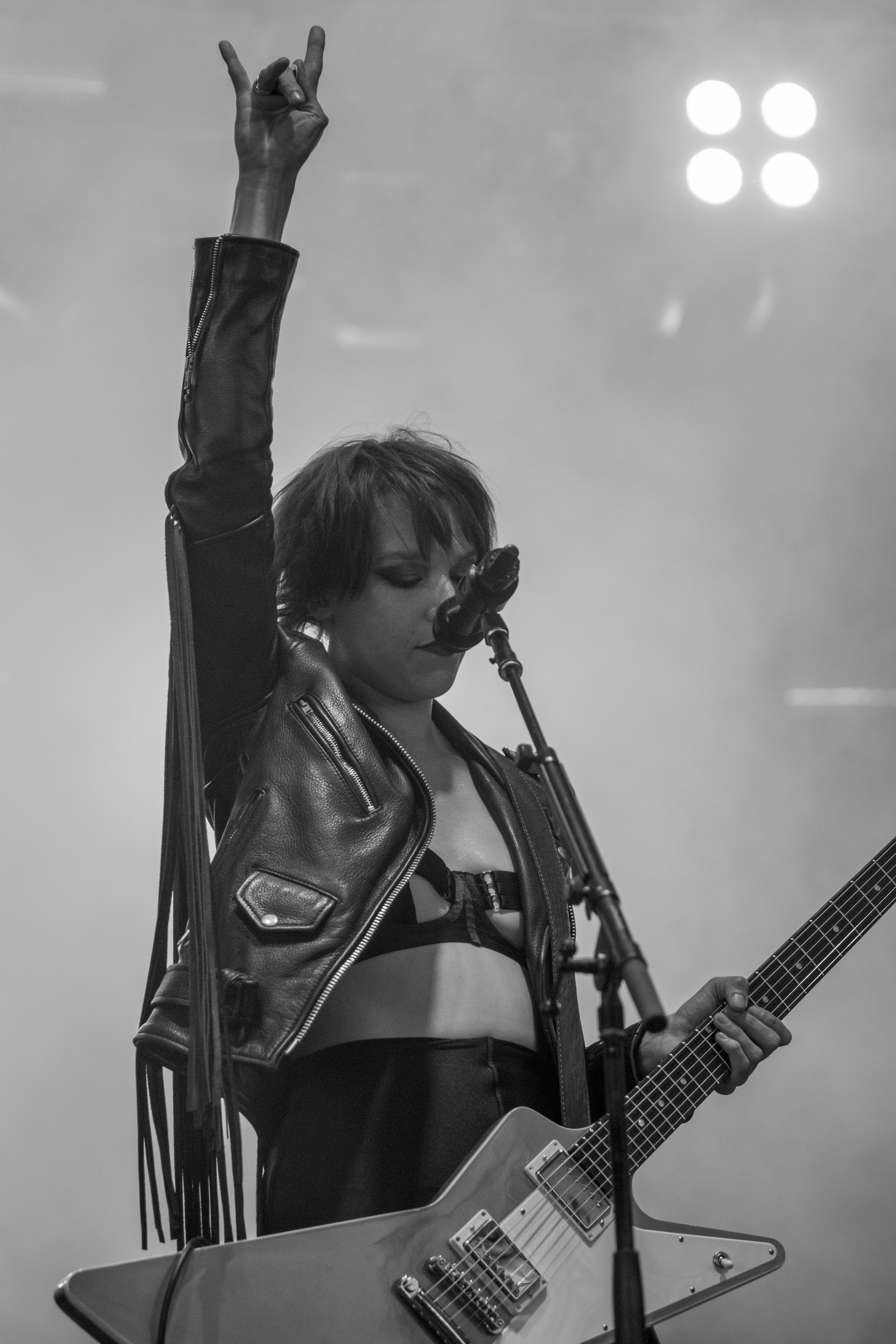 Halestorm at Tuska Open Air Metal Festival 2019 in Helsinki, Finland (Kalasatama)